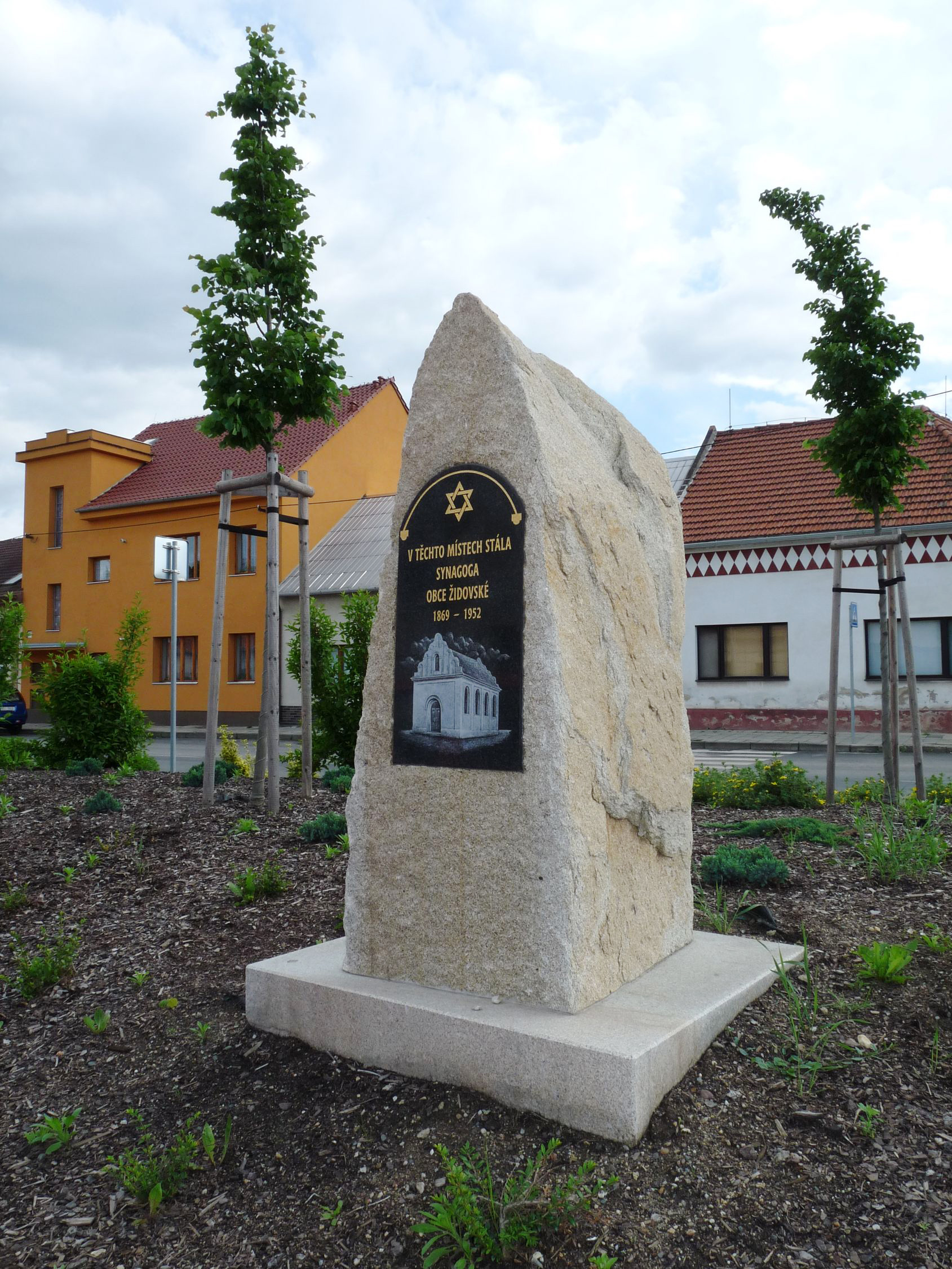 Memorial of the synagogue in the town of Kostelec nad Labem, Mělník District, Central Bohemian Region, Czech Republic, demolished around 1952.